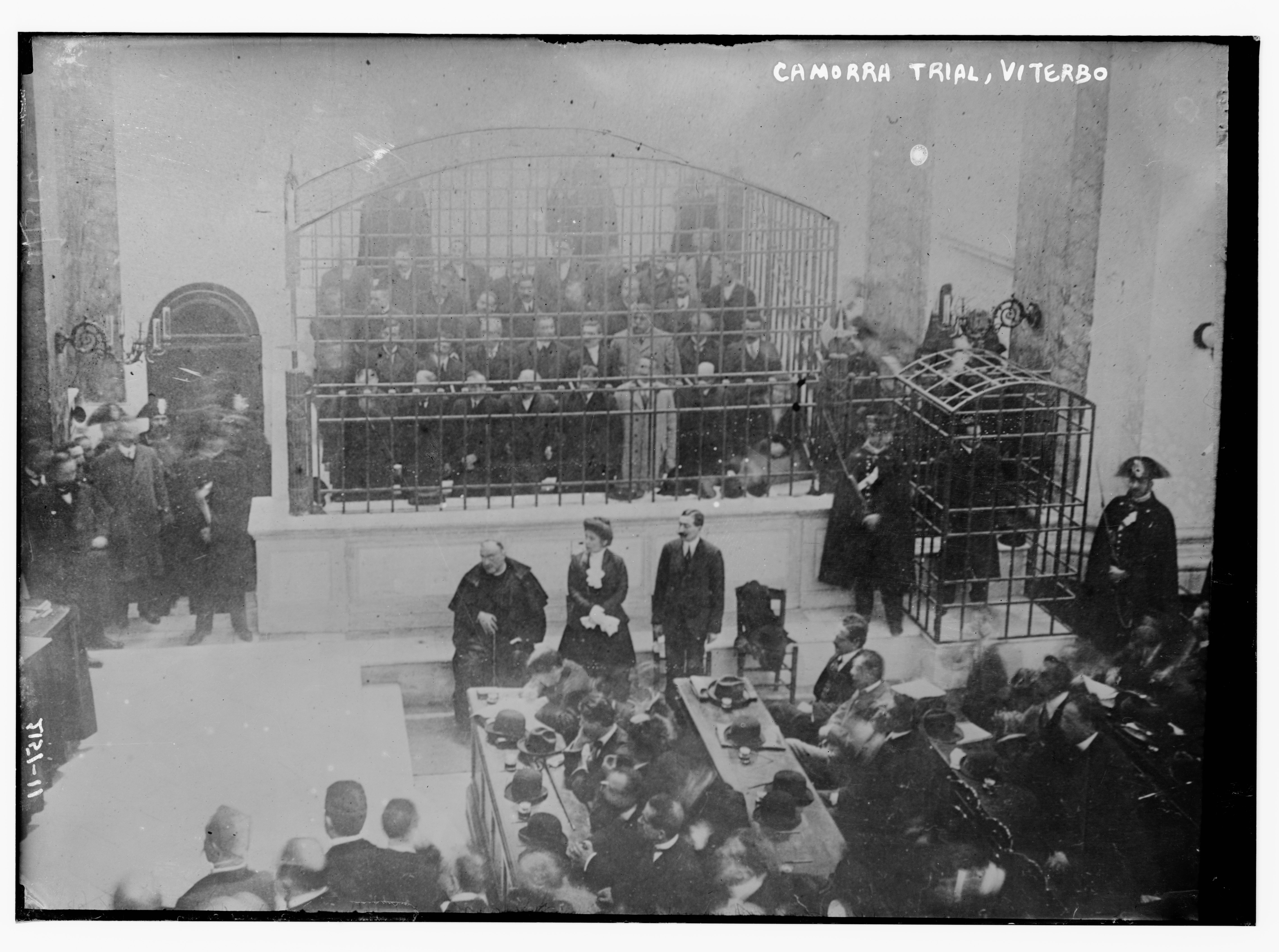 Title: Camorra Trial, Viterbo Abstract/medium: 1 negative : glass ; 5 x 7 in. or smaller.